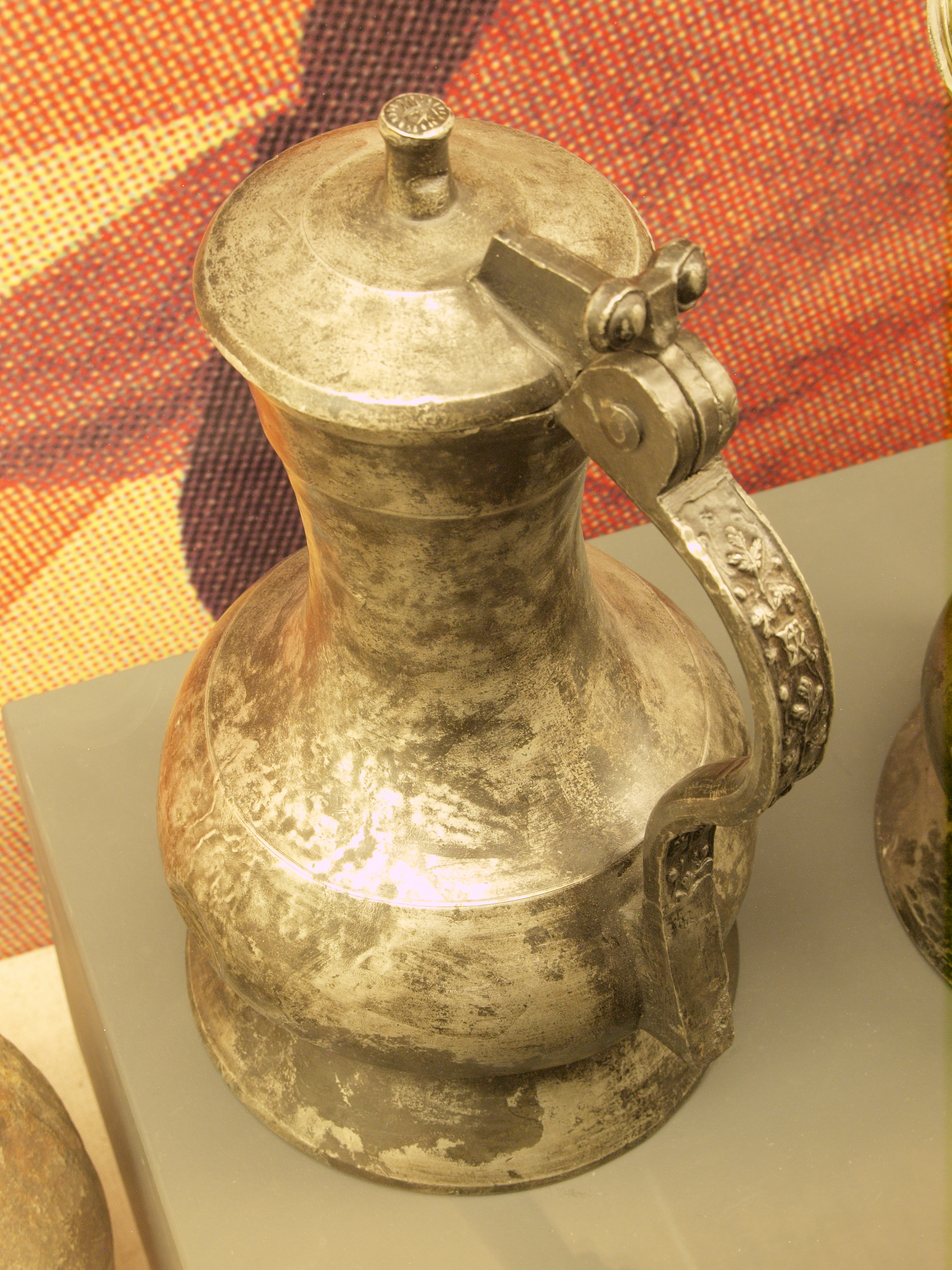 A so called Hansekanne (German Language).